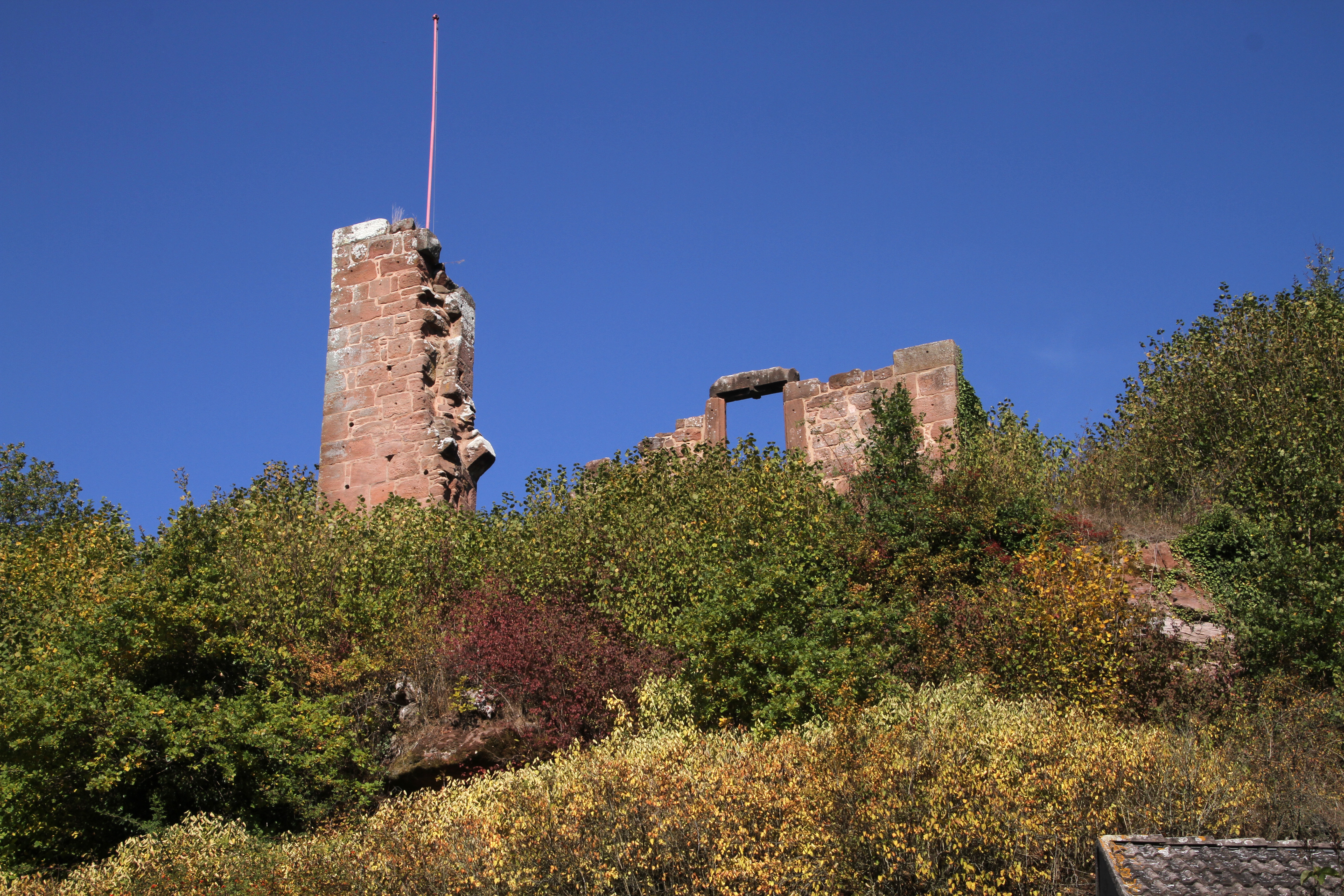 Castle of Walschbronn